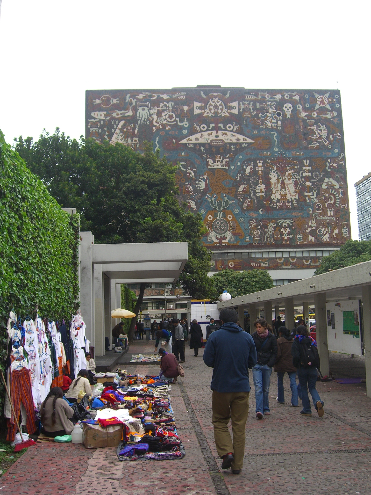 Central library of the National Autonomous University of Mexico on the campus of Mexico City. (built by Juan O'Gorman)